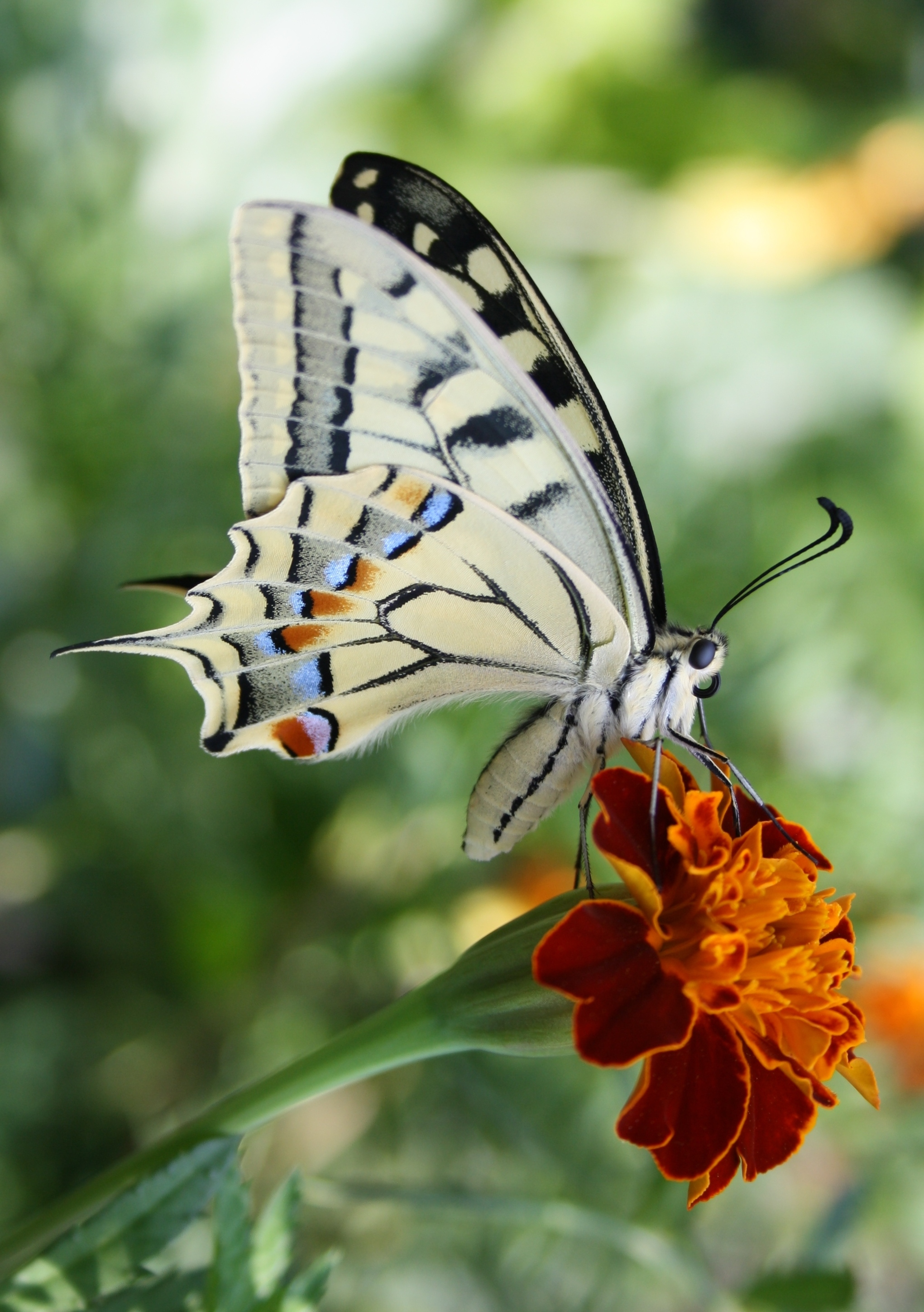 A vendral side of Papilio machaon. Bolzano Italy.